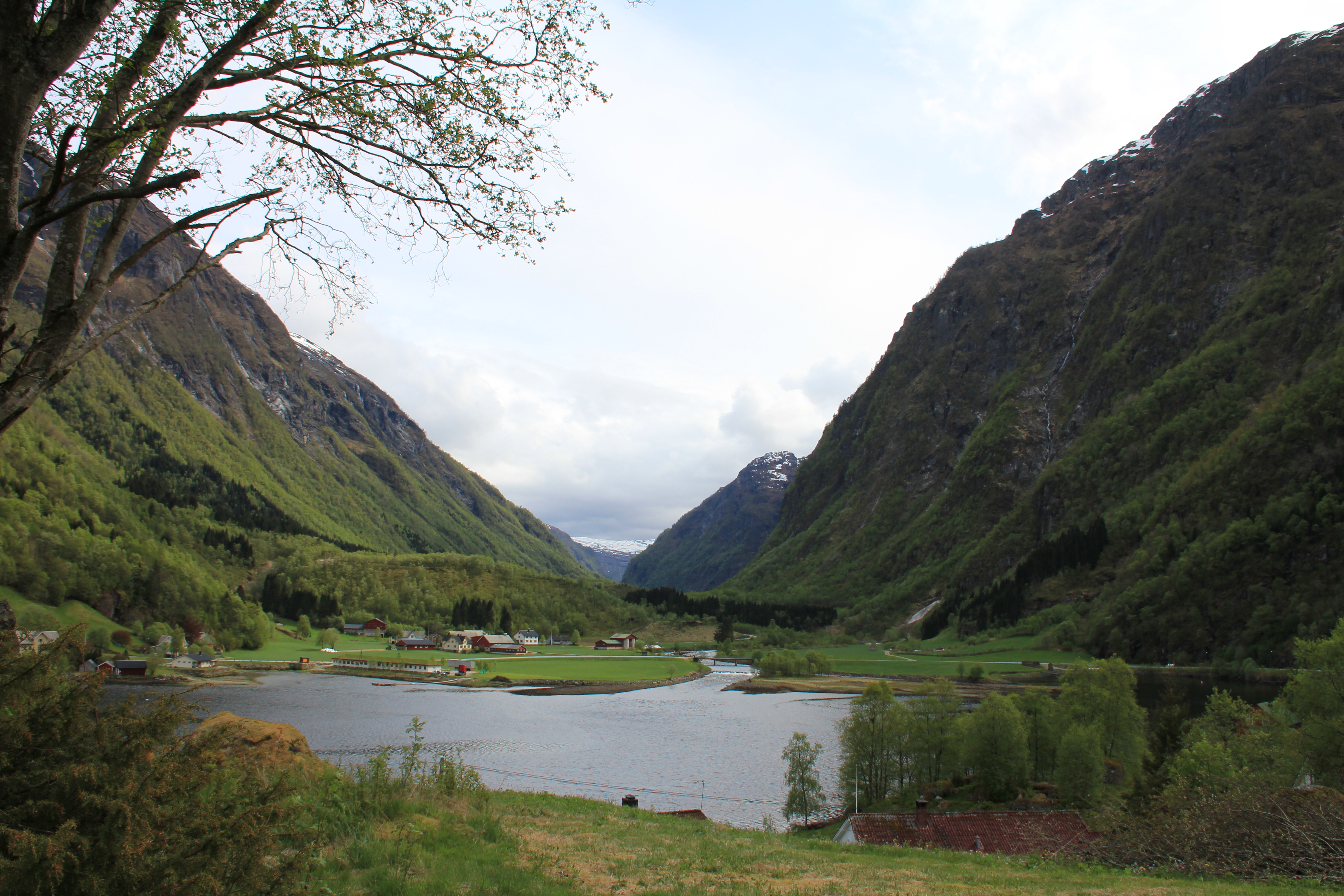 Hyefjord and Ommedal, with the river, Åelva in Hyen, Gloppen